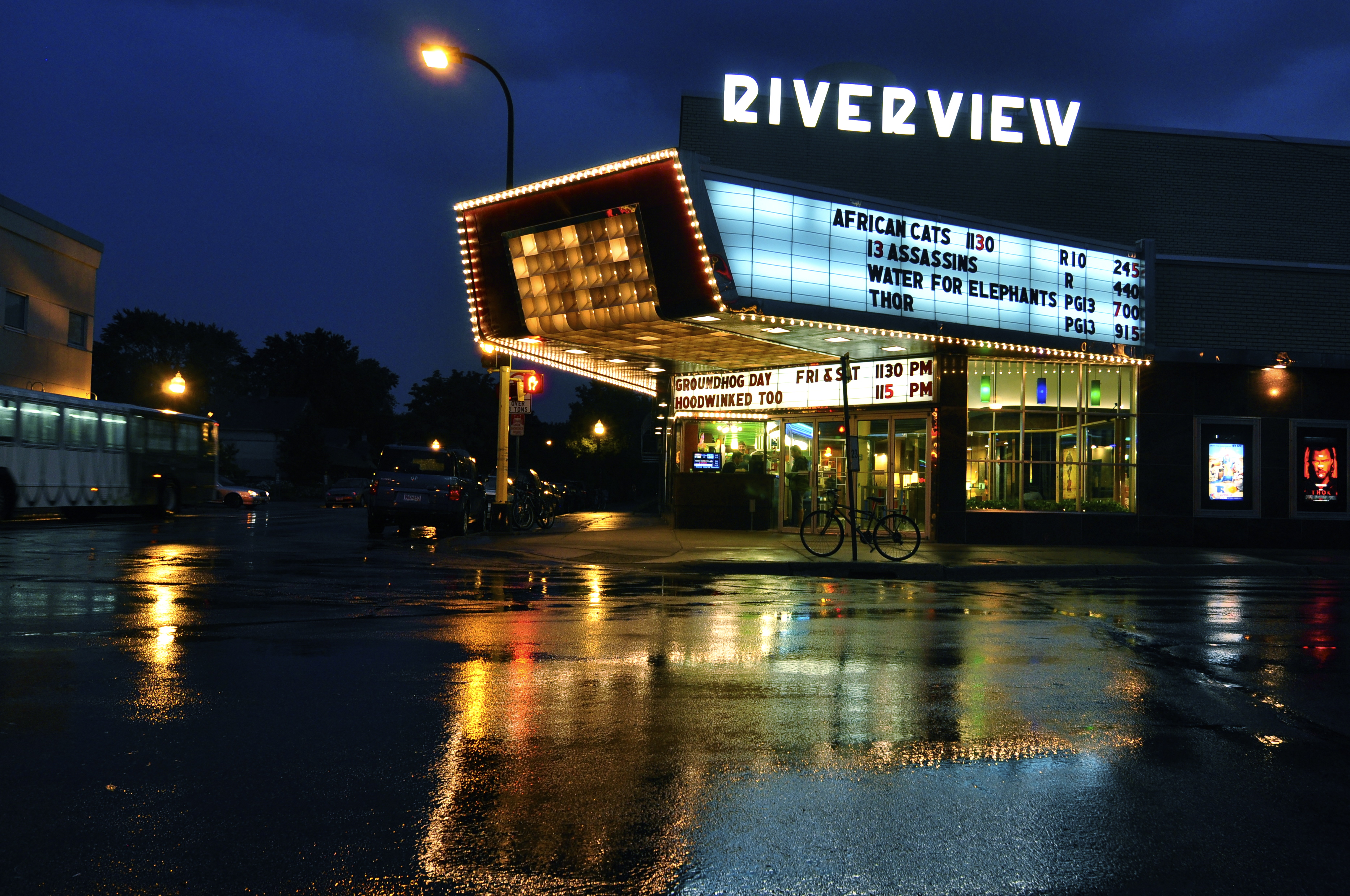 The Riverview Theater illuminated marquee one wet night.